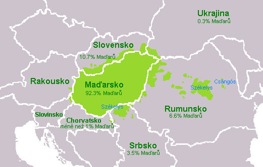 Translation to czech